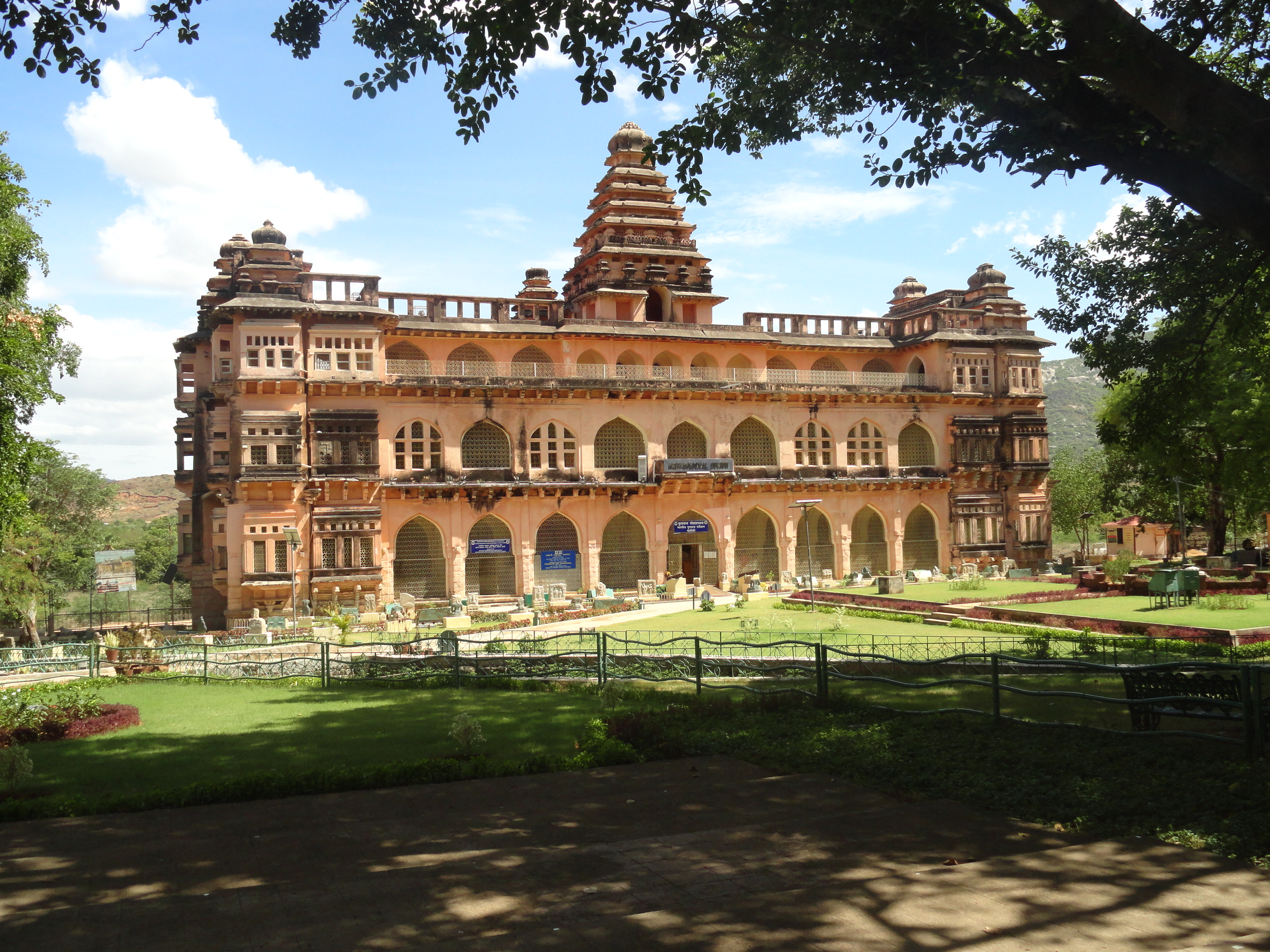 this picture is taken at chandradiri fort. this is view back side of the raja mahal.